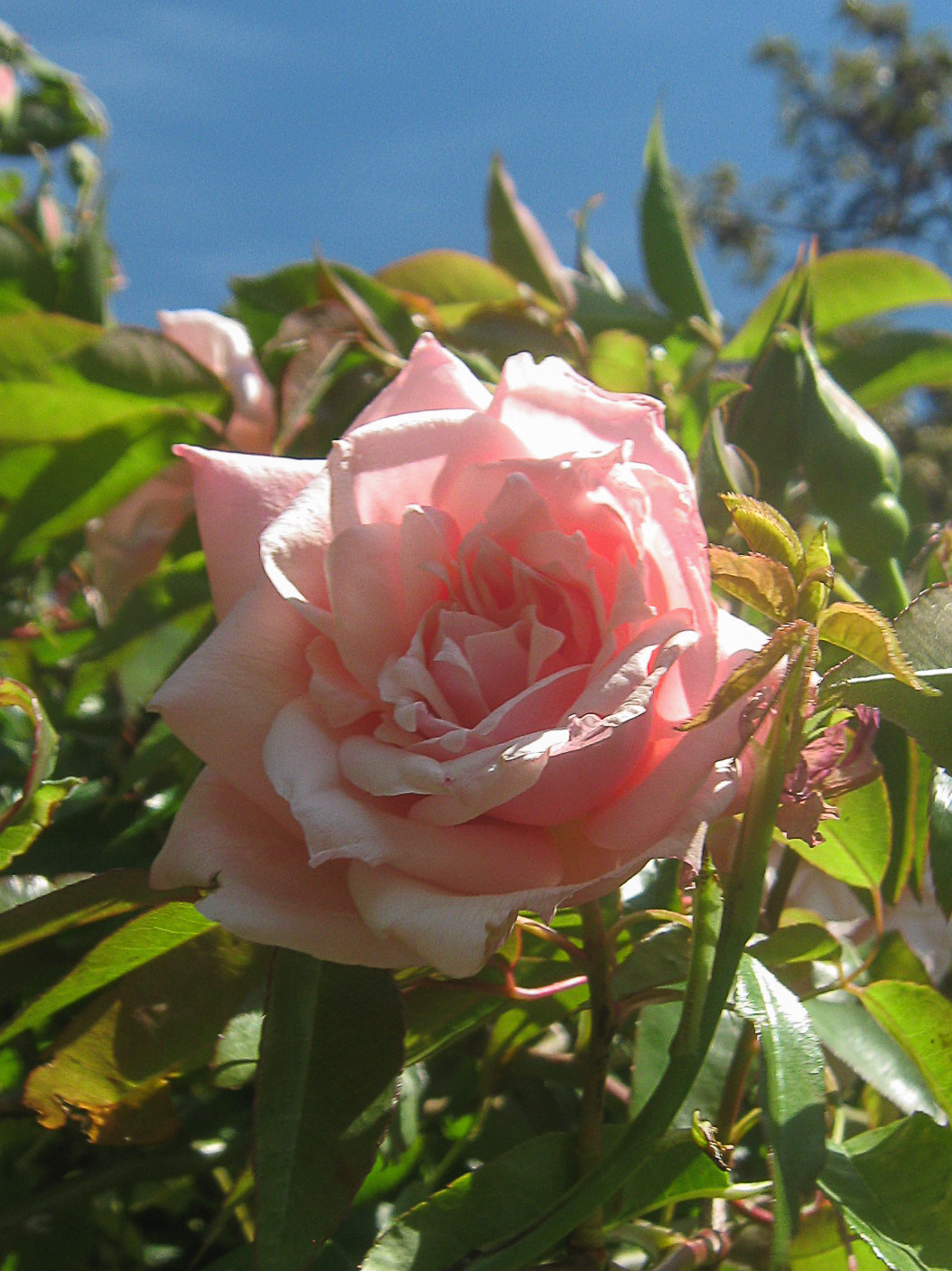 Rose 'Doris Downes', Hybrid Gigantea climber 1932; photographed in the Alister Clark Memorial Rose Garden, Bulla, Victoria